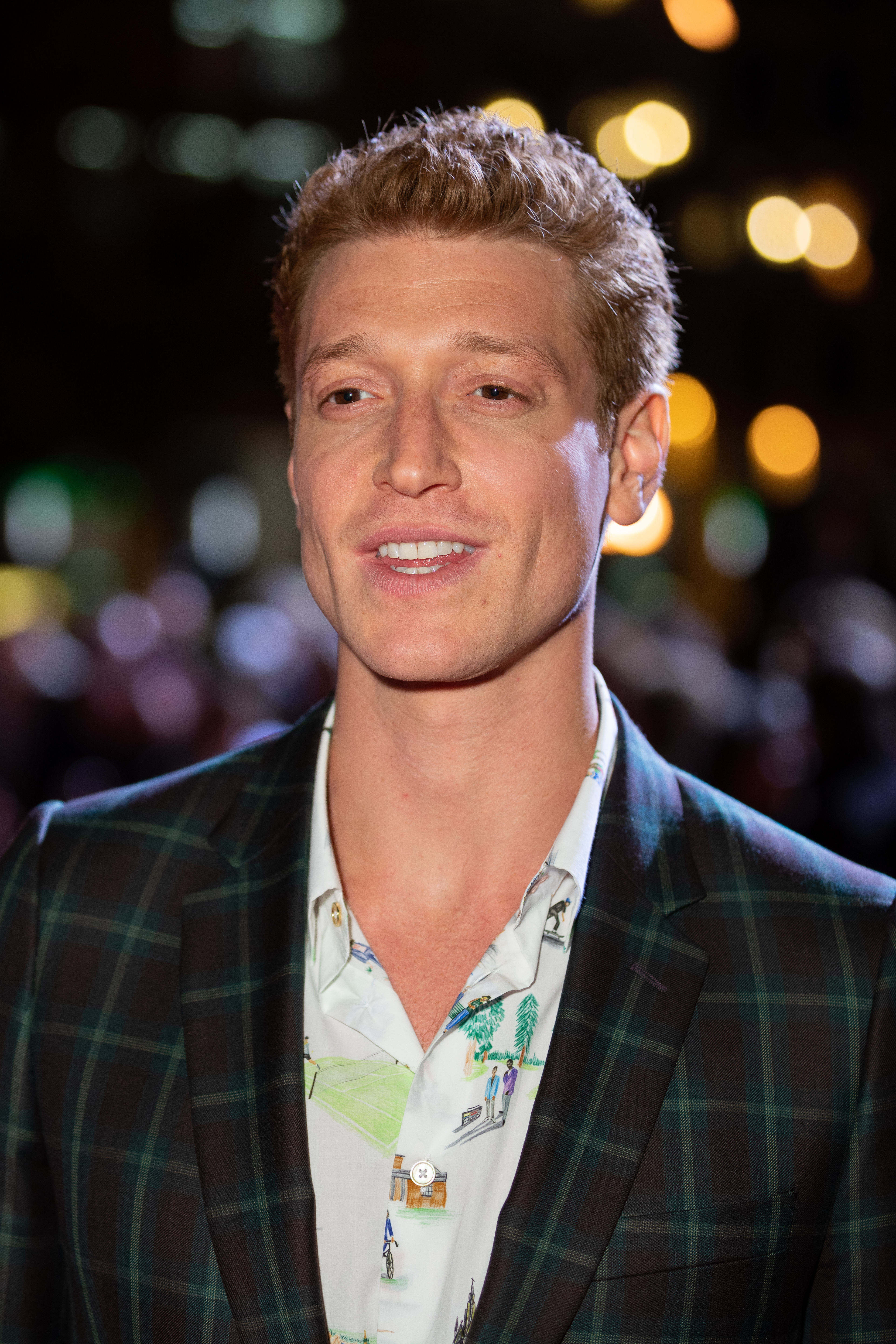 Daniel Donskoy on the red carpet of the Hessian Film and Cinema Prize 2019 in the Alte Oper Frankfurt.